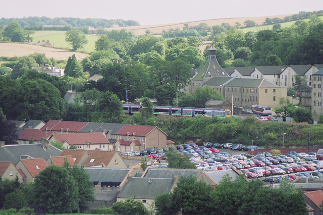 Linlithgow. Once this area was part of ICI's Regent Works, now it forms Tesco's car park ! This is the less glamorous side of NT0077, away from the lake and the historic Scottish royal palace. Beyond the railway line, just inside this square, is the shapely malt kiln tower of St. Magdalene's Distillery (now St. Magdalene's flats).